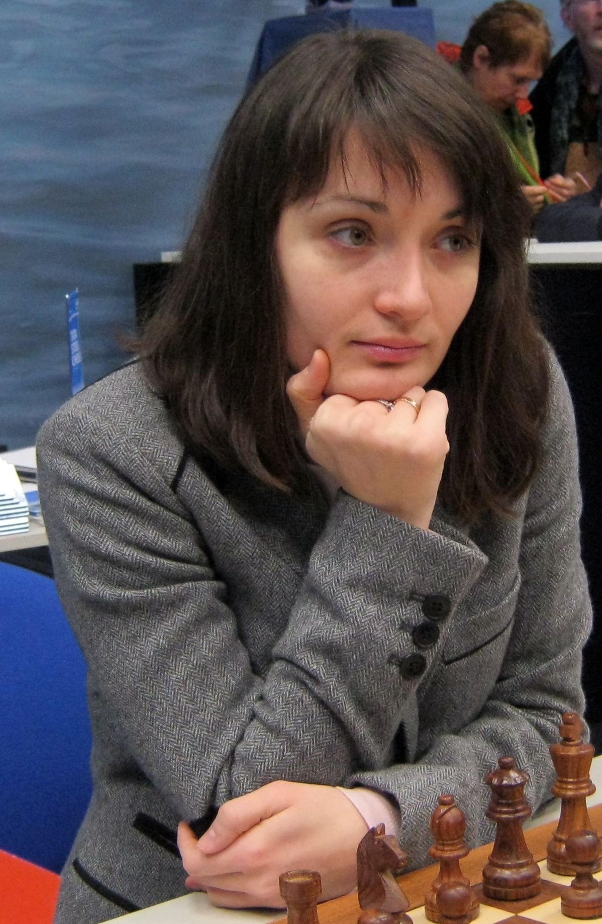 Kateryna Lahno, chess player from Ukraine